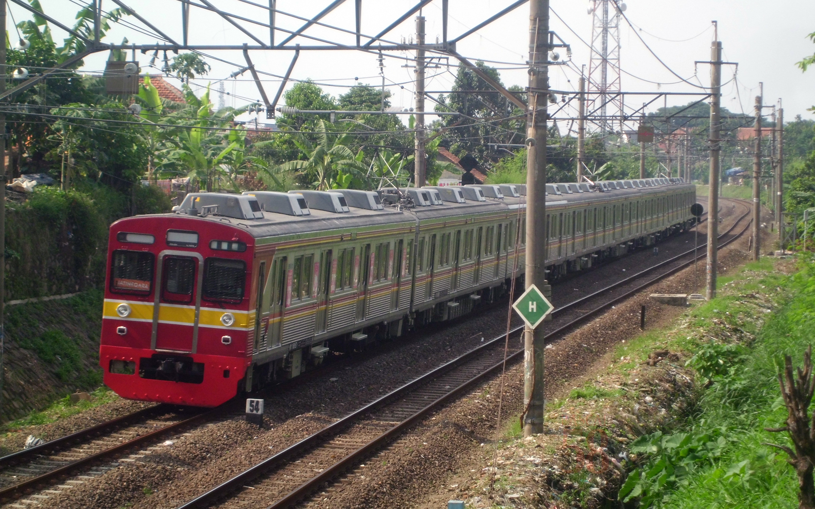 Former Tokyu Den-en-toshi Line 8500 series set 8610 on an afternoon commuter service in Indonesia, September 2016. Although it was bought by Kereta Api Indonesia via Jabodetabek Urban Transportation Division in 2007, the color scheme was changed to KA Commuter Jabodetabek (subsidiary of Kereta Api Indonesia) red and yellow scheme due to latest company rule.